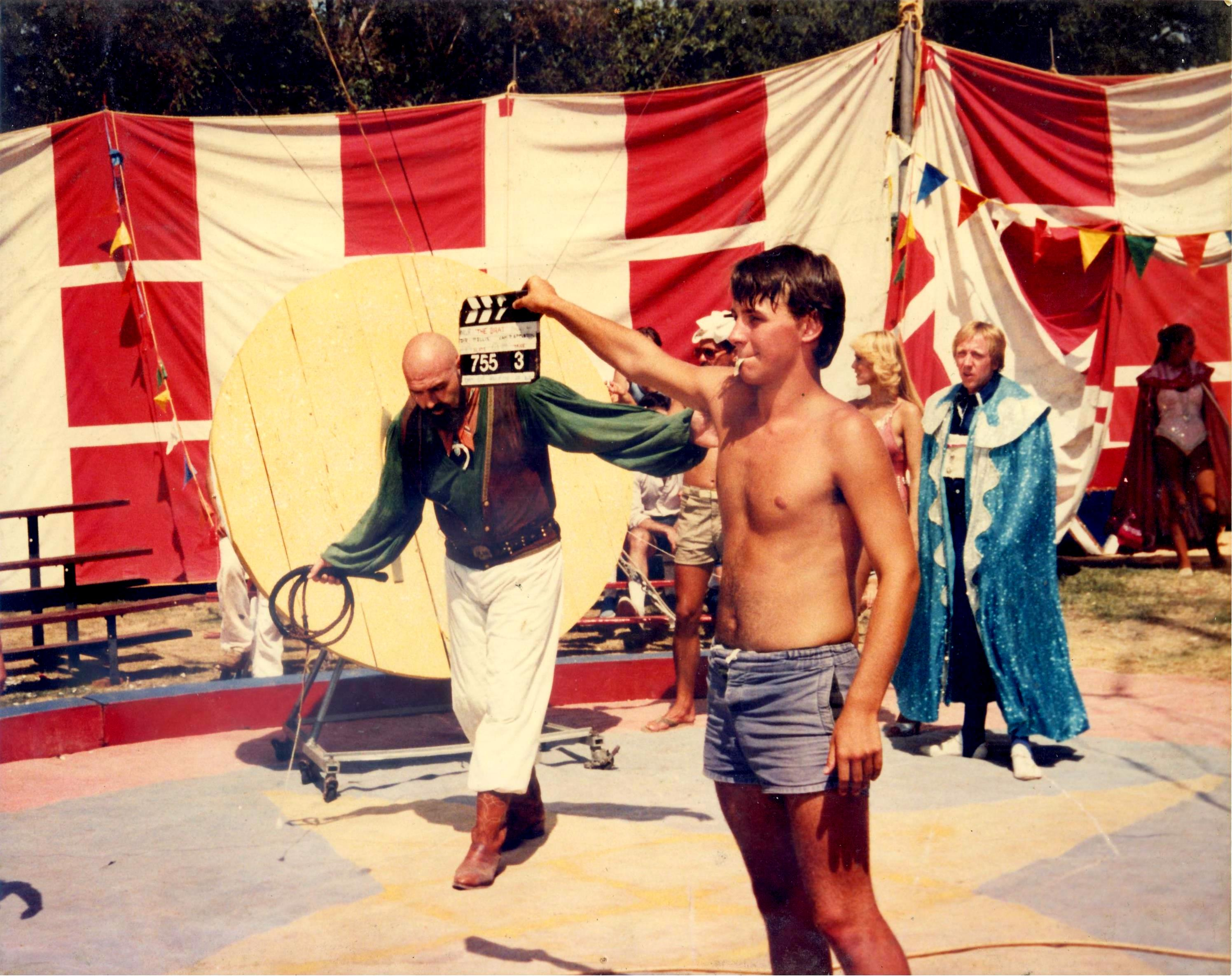 Ashley Sidaway filming on location in Los Angeles during July 1982 for the TV series The Optimist (Season One)